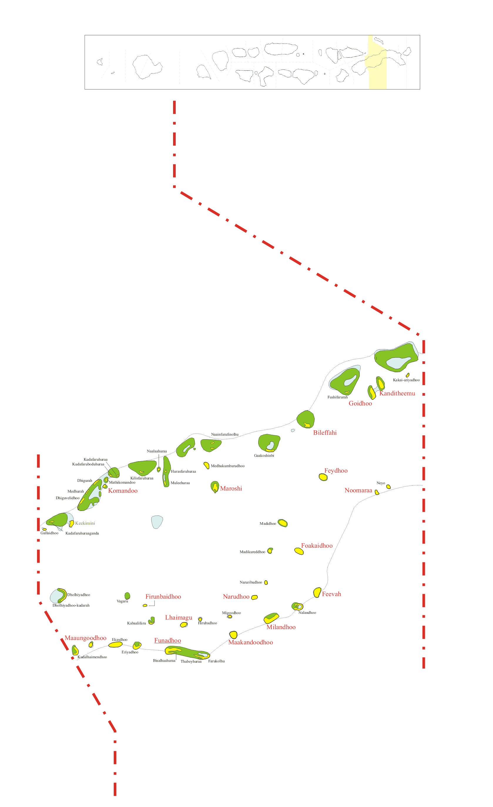 Summary Map of Shaviyani_Atoll Map originally vector'ed by Hassan Waheed, Aabaadhuge of Thinadhoo island. Note: This section of map was extracted and its text was romanized by Oblivious. Special assitance by Waddey and Zuru Converted to PNG by helix84 source: Image:Shaviyani_Atoll.jpg